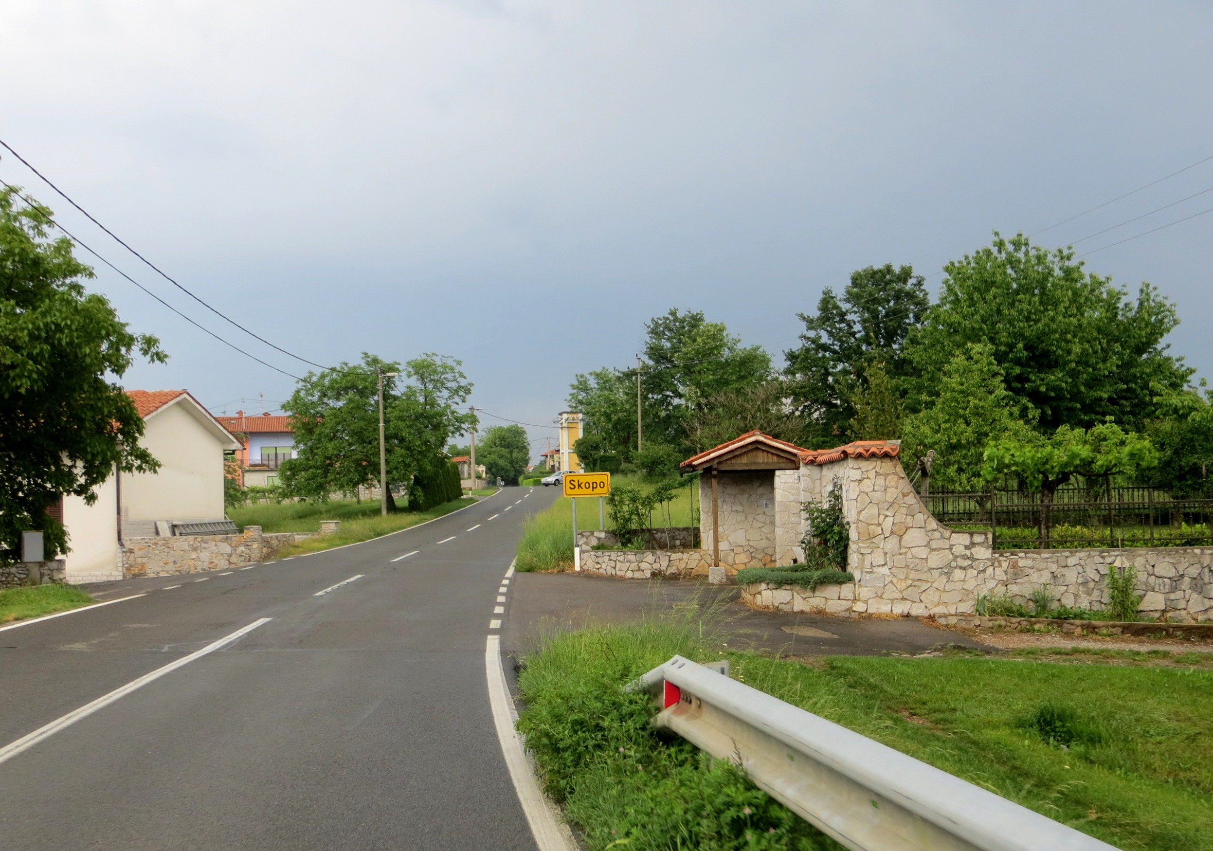 Skopo, Municipality of Sežana, Slovenia